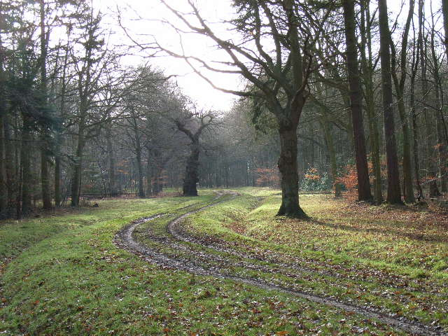 Track in Holliday's Plain, Windsor Forest. This is part of the Crown Estate's Windsor Great Park.